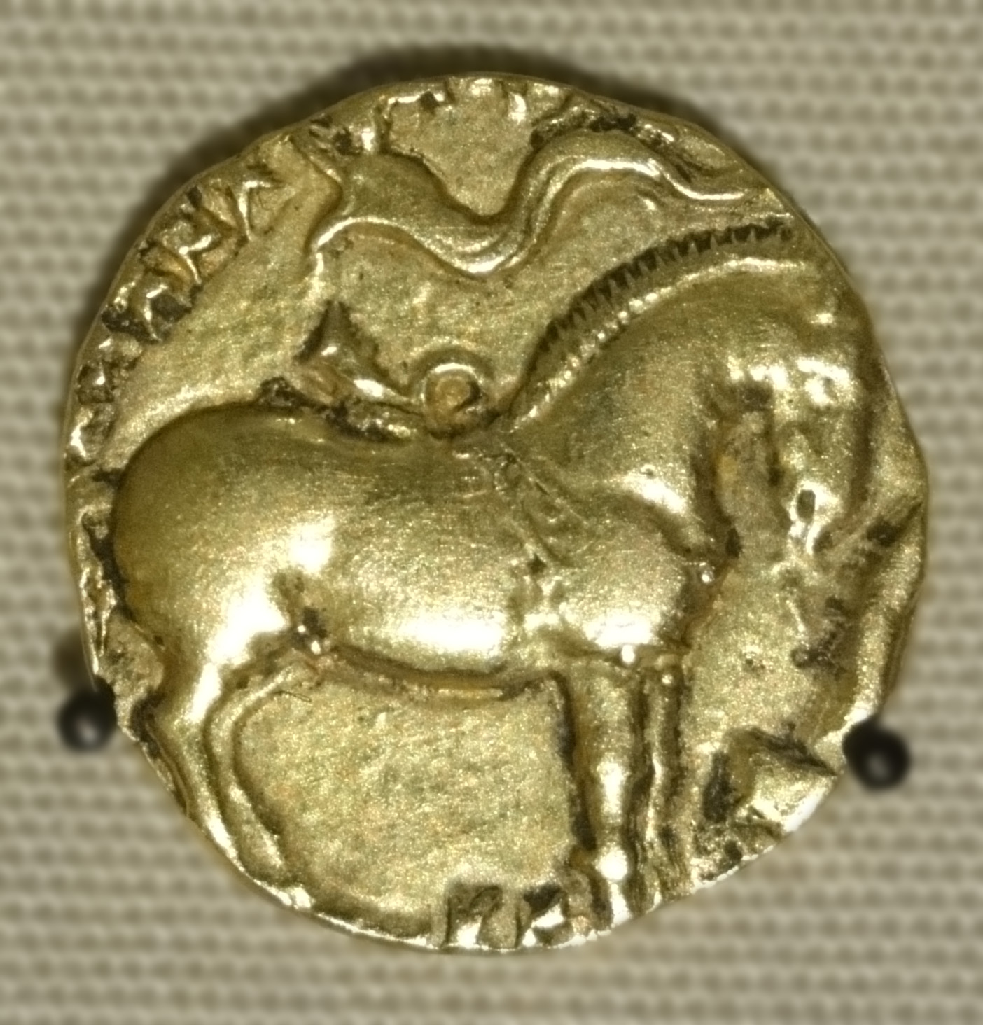 Gold coin of Kumaragupta I. Featured by BBC/BM 100 objects series.